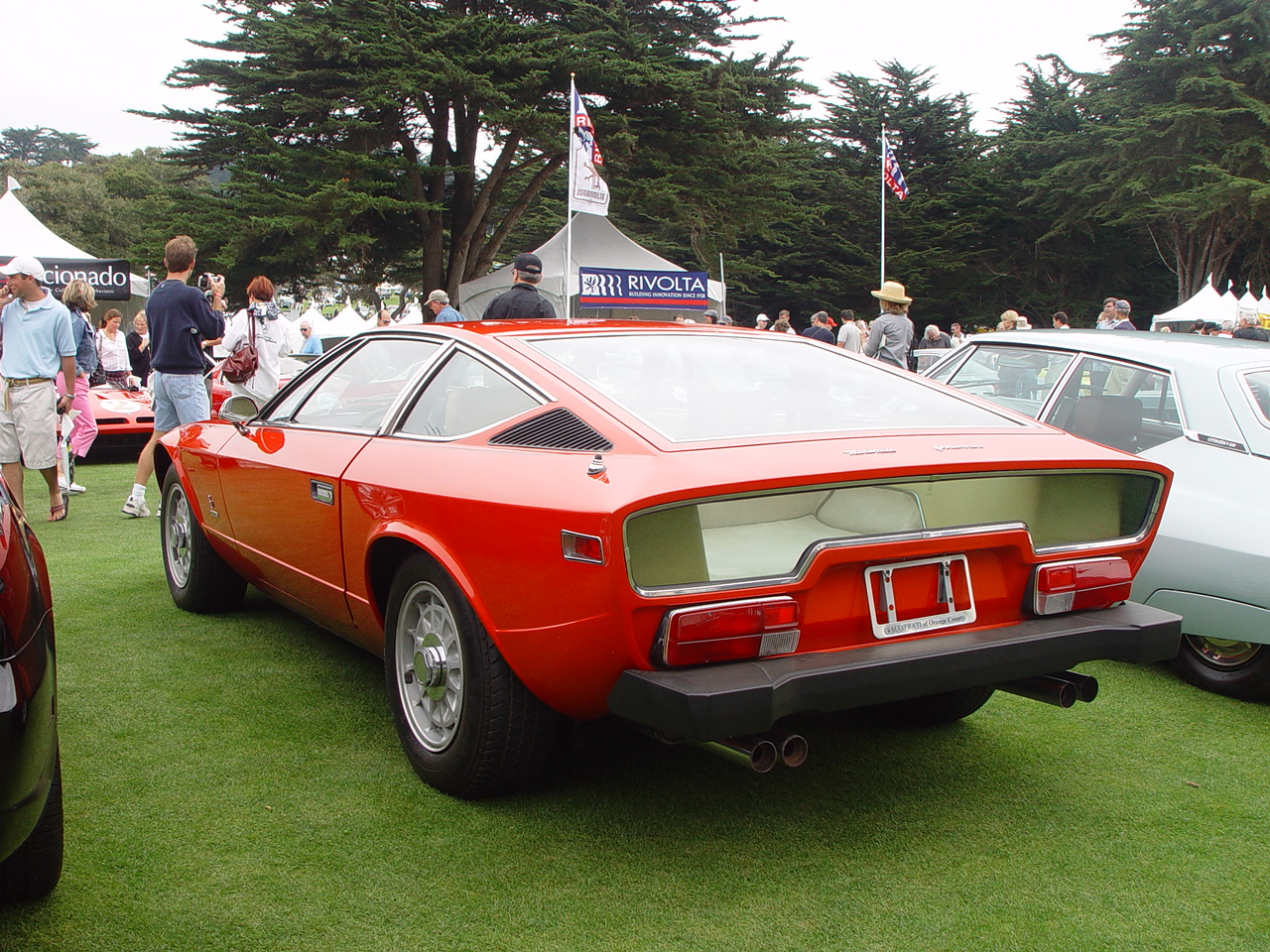 Maserati Khamsin, US-specification. Photograph taken at 2004 Concorso Italiano.